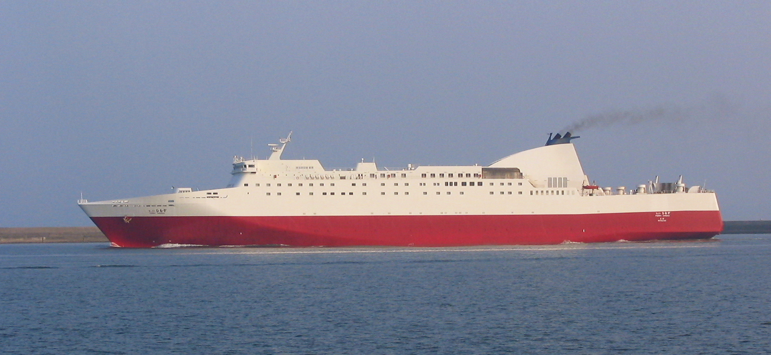 Description=宮崎港を出航中の「フェリーひむか」 Source=Own Work Date=2005-06-25 Author=Mer Vent